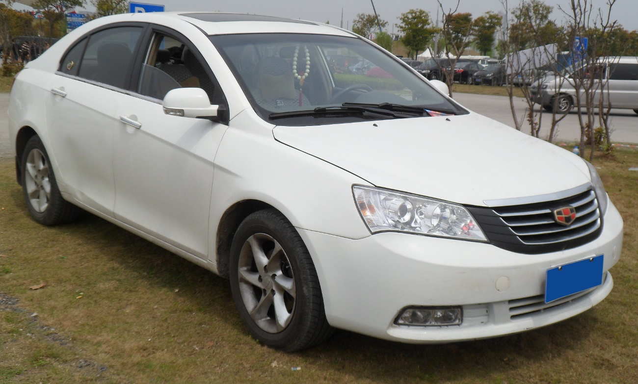 Emgrand EC7 photographed in Anting, Shanghai municipality, China.